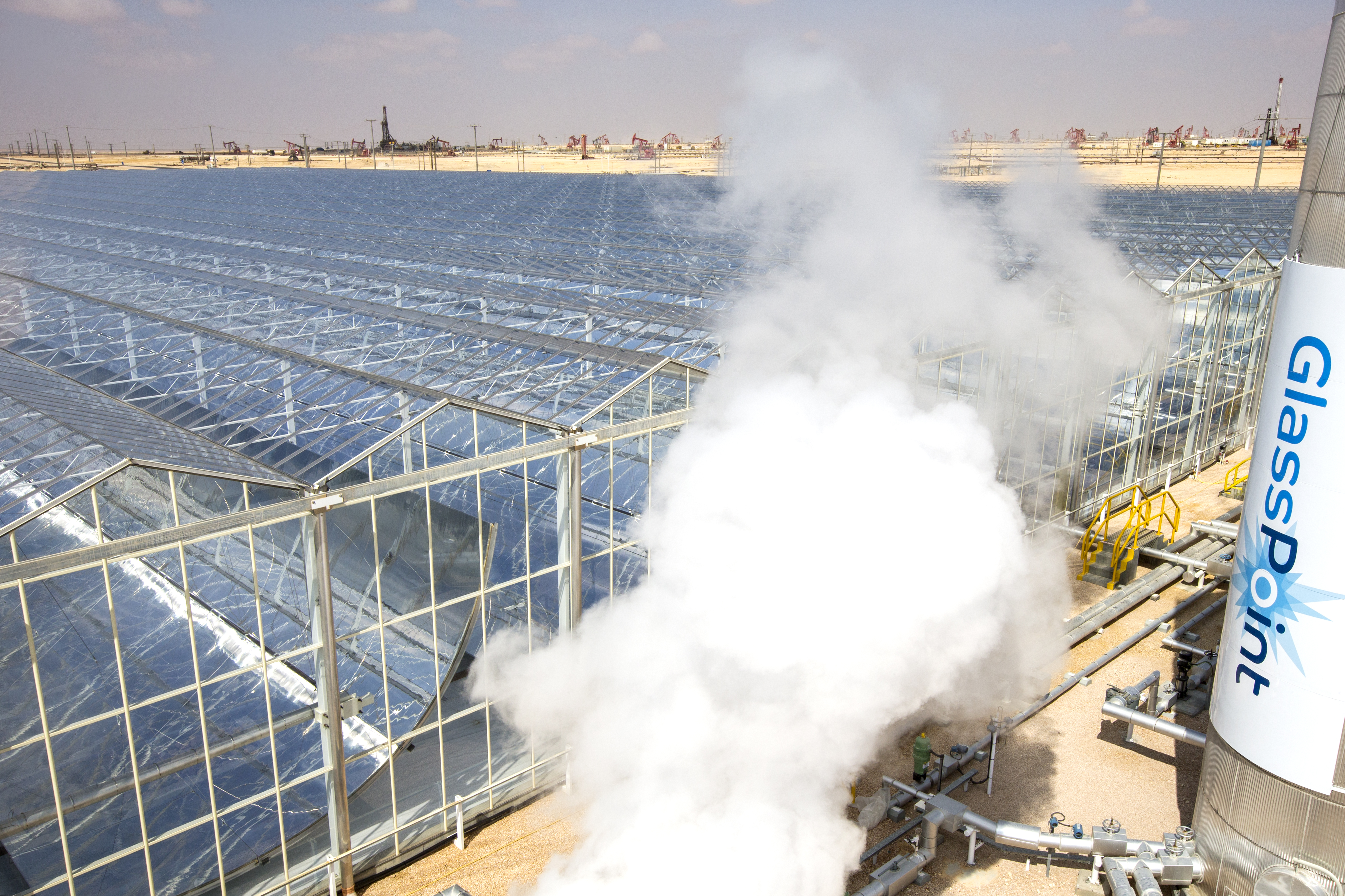 A solar enhanced oil recovery (EOR) site in Amal, Oman that concentrates sunlight to generate steam for EOR. Developed by GlassPoint Solar.